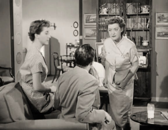 L. to R. : June Travis, Herb Vigran & Bette Davis in The Star (1952) - trailer (cropped screenshot)